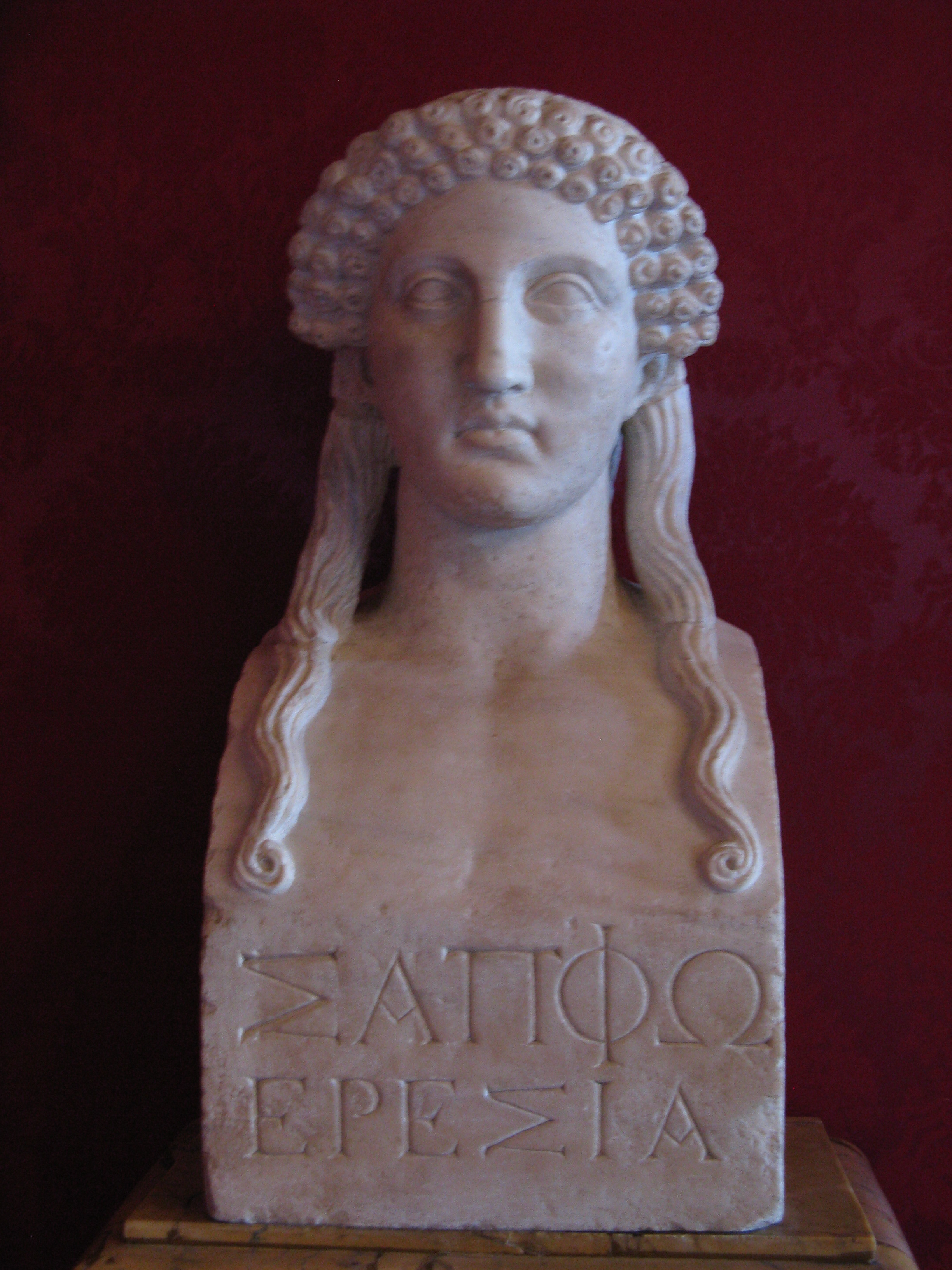 Bust of Sappho at Capitoline Museums.